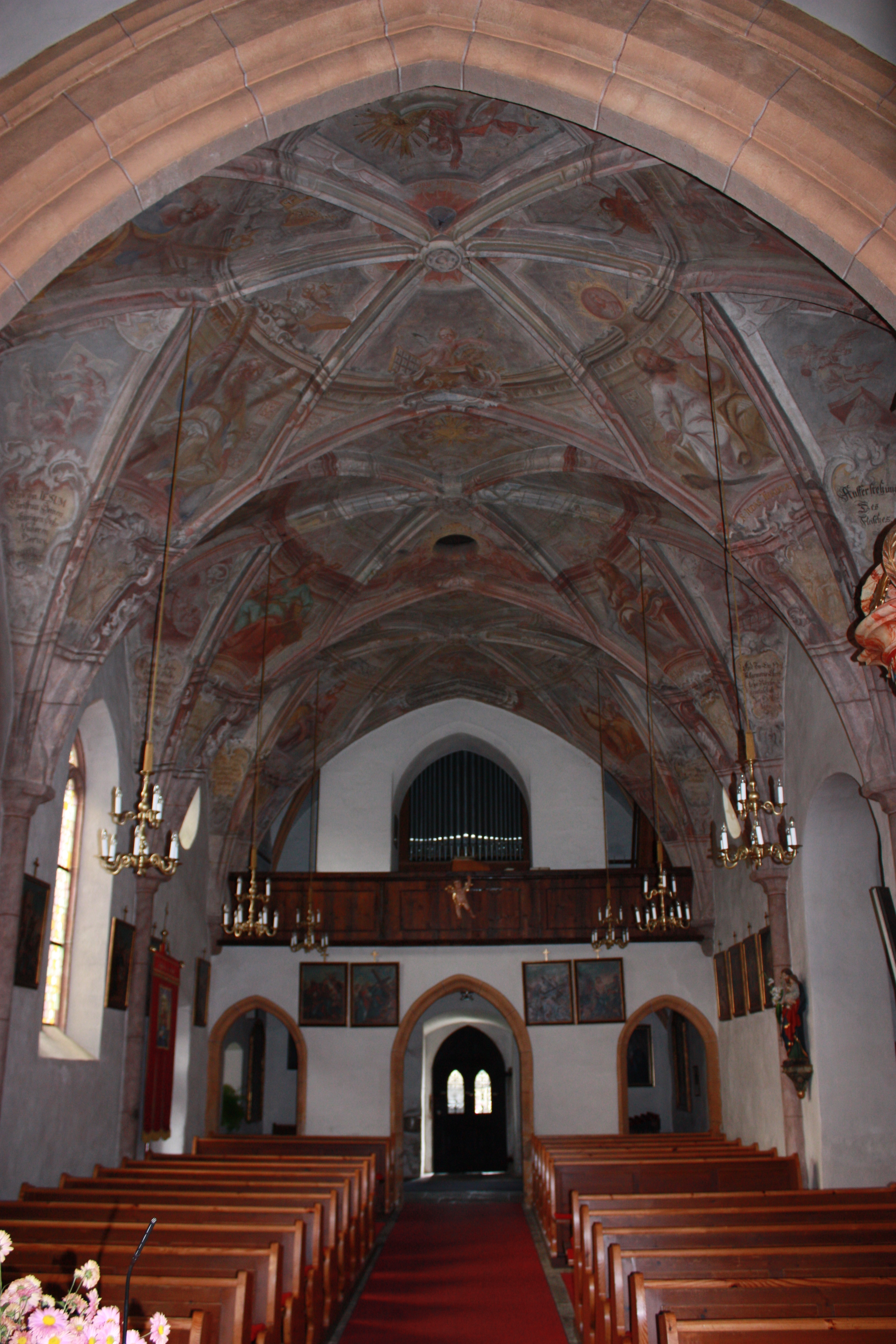 Parish church Saint Margareta - View to the organ loft Locality: Sankt Margareten im Lavanttal Community:Wolfsberg